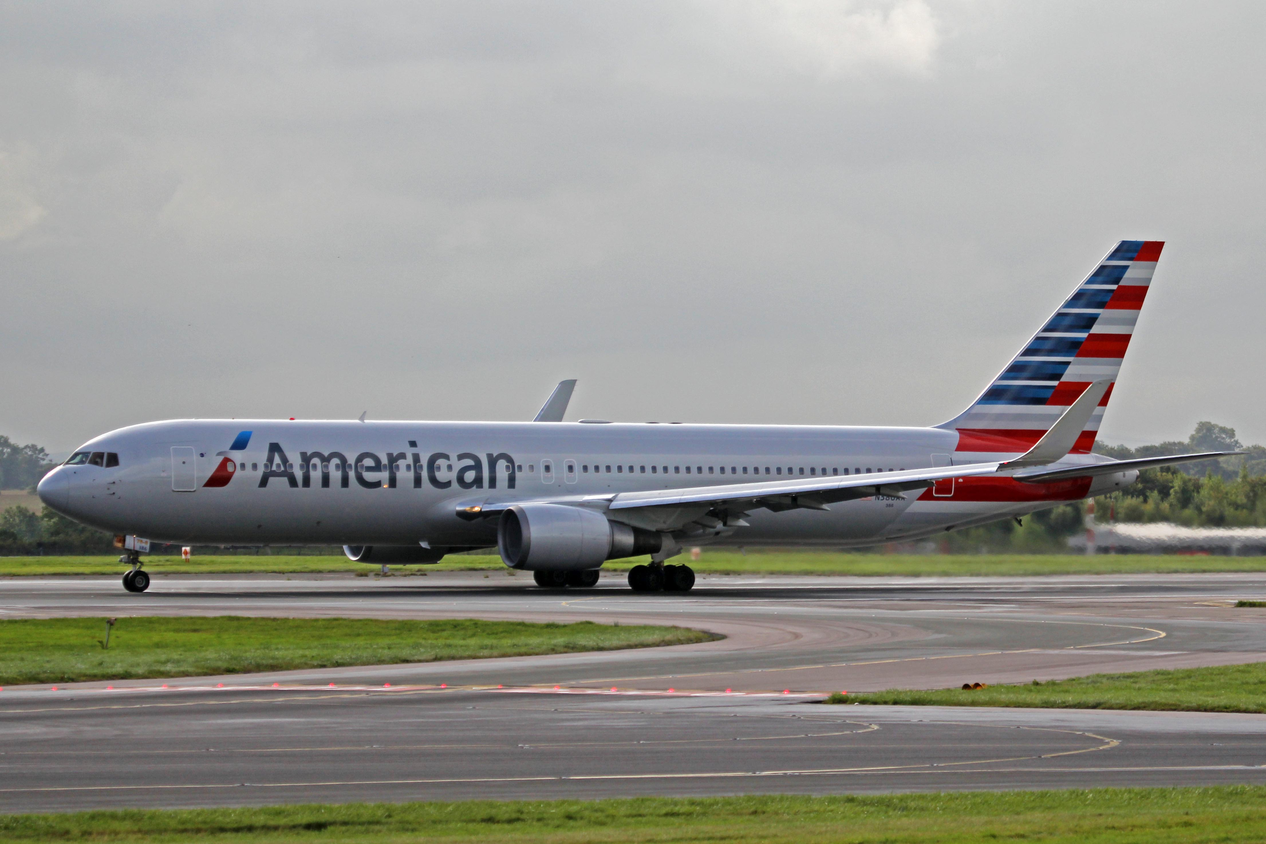 The first AA B767 I've seen in the new c/scheme!